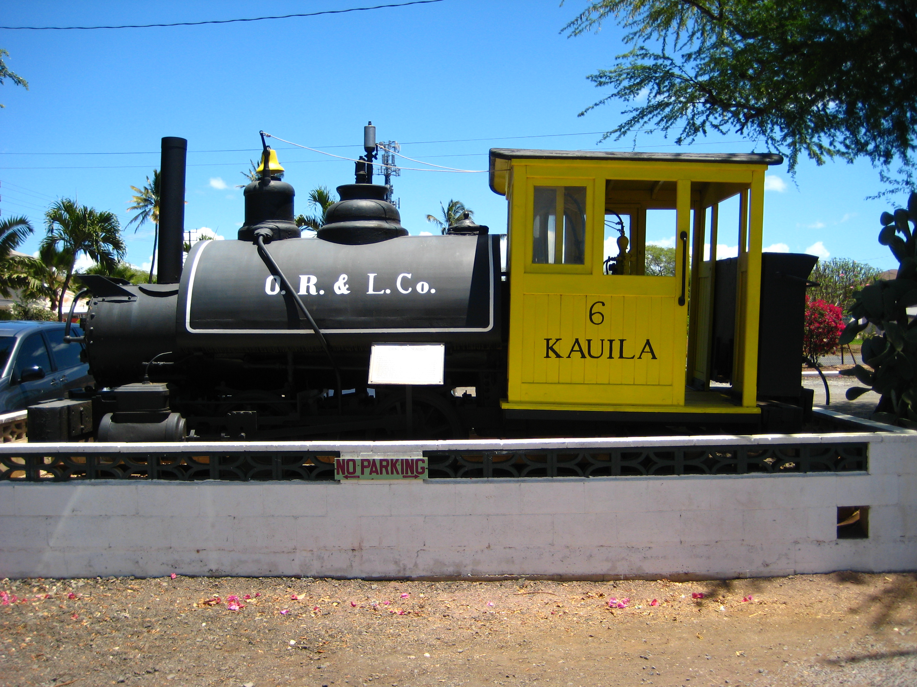 More of the Hawaiian Railway Society's exhibit engines.